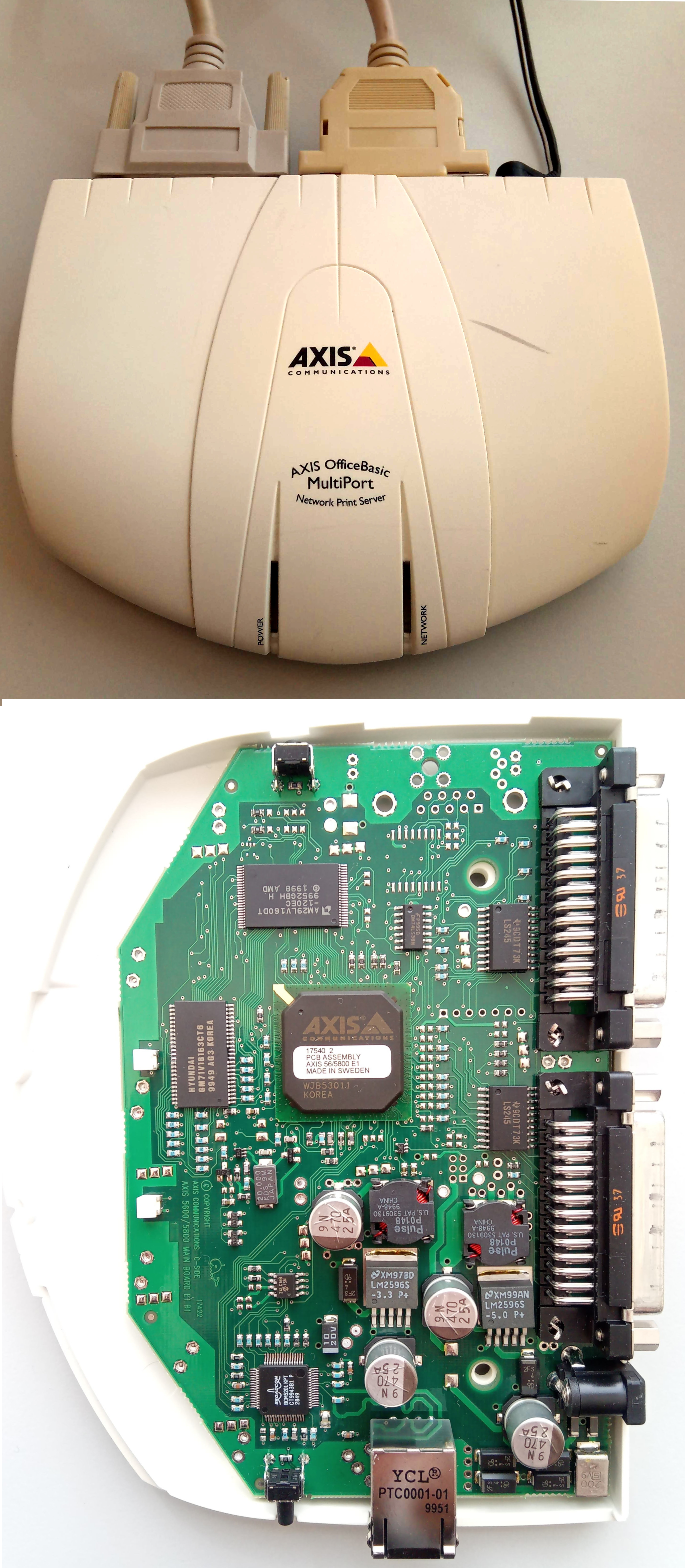 Axis print server 5600/5800 from around 2003, exteriors and circuit board image.